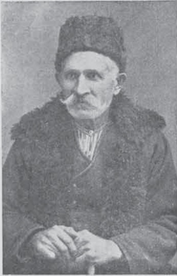 Bulgarian revolutionary from Kostur (Kastoria) region